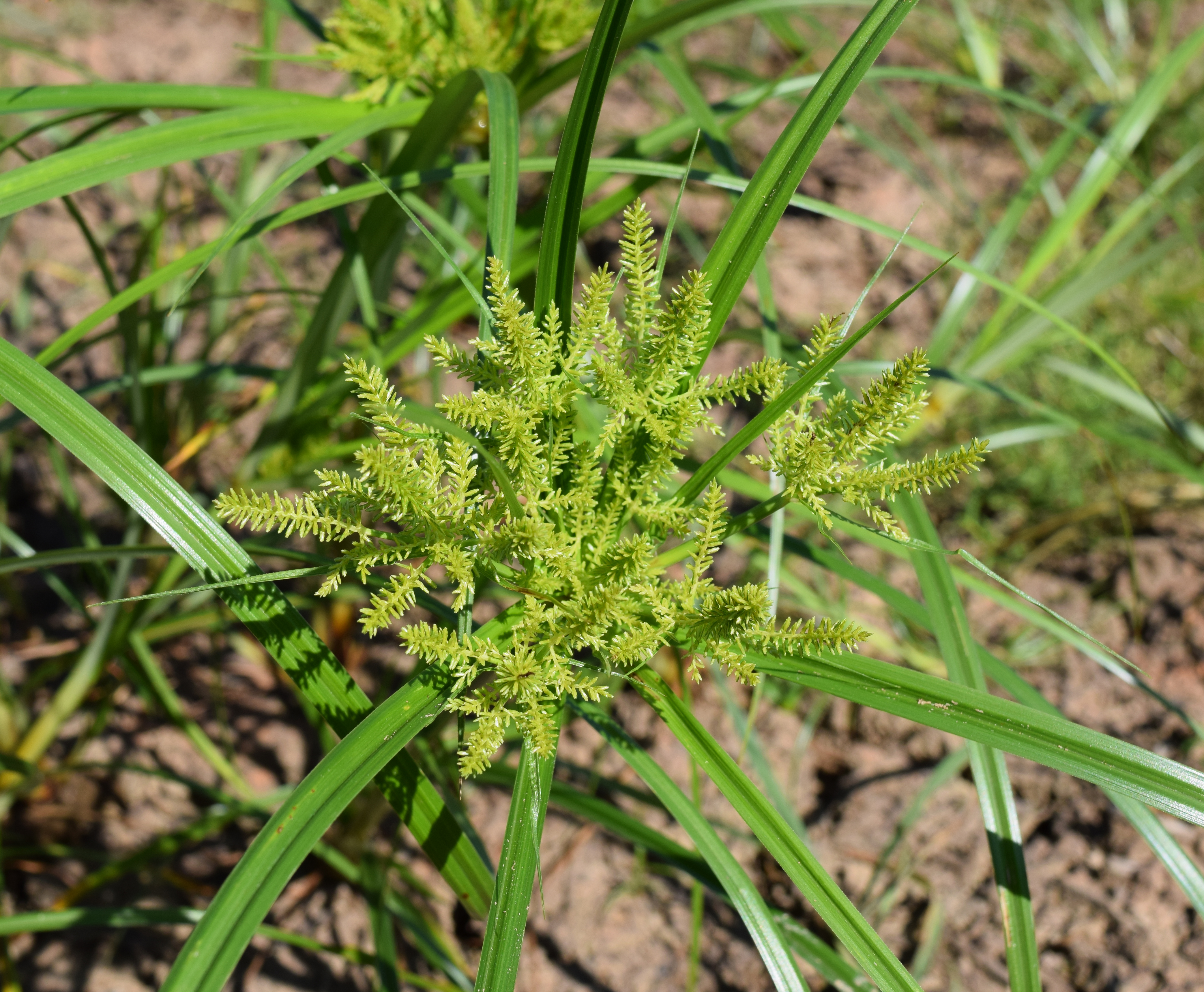 'Cyperus erythrorhizos at the University of Mississippi Field Station